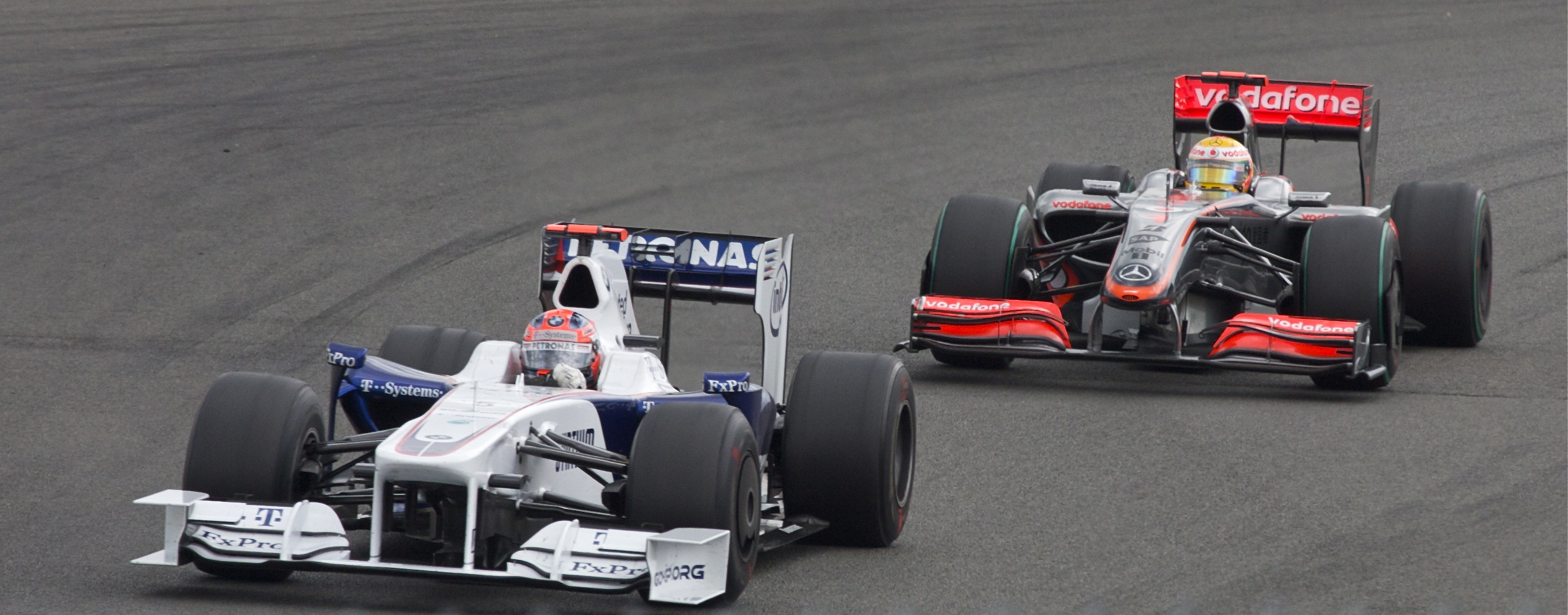 Robert Kubica (front) and Lewis Hamilton at the 2009 British Grand Prix, Silverstone, UK.